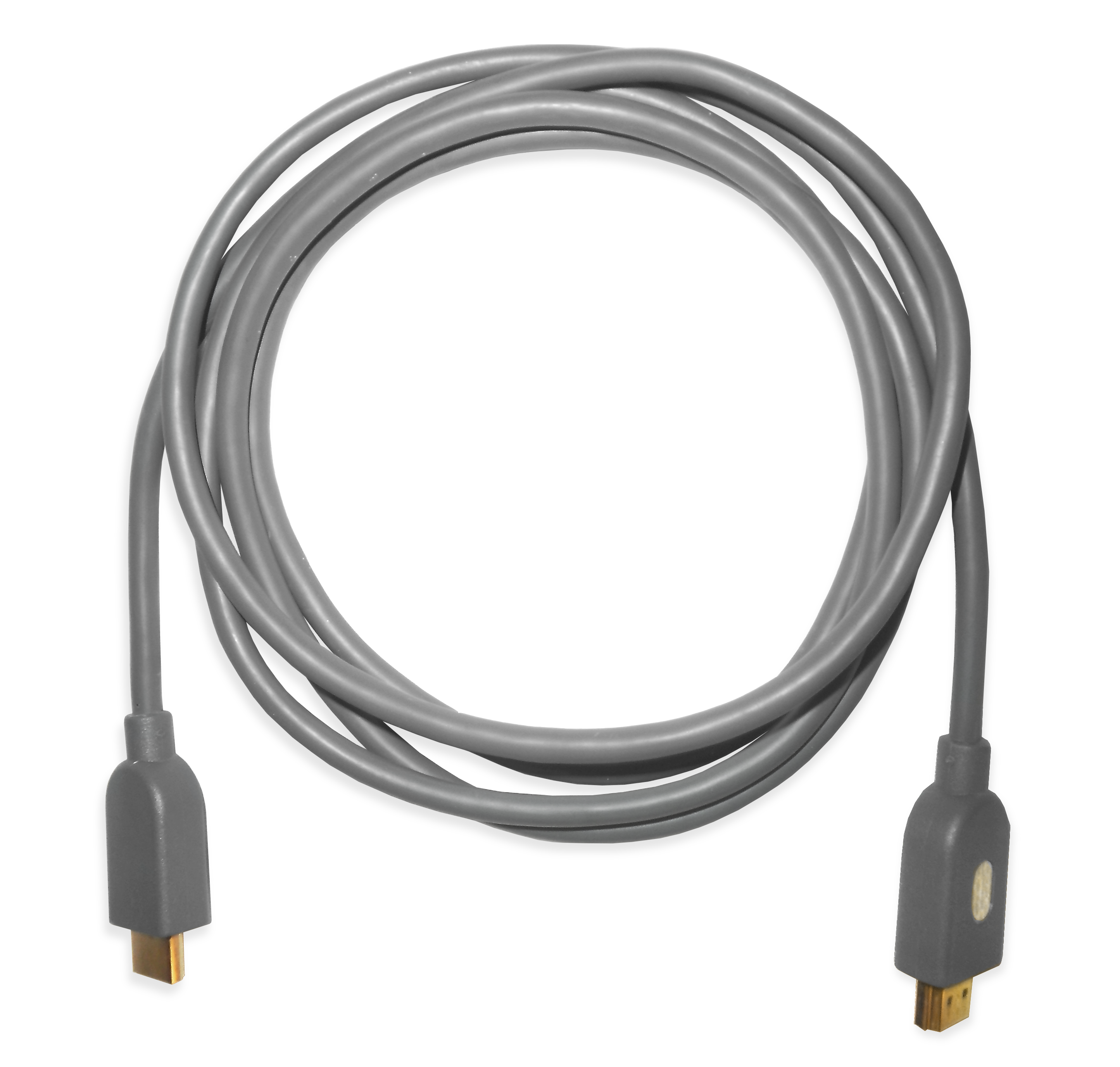 Microsoft Branded (Xbox 360) HDMI cable